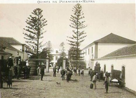 quinta da picanceira2